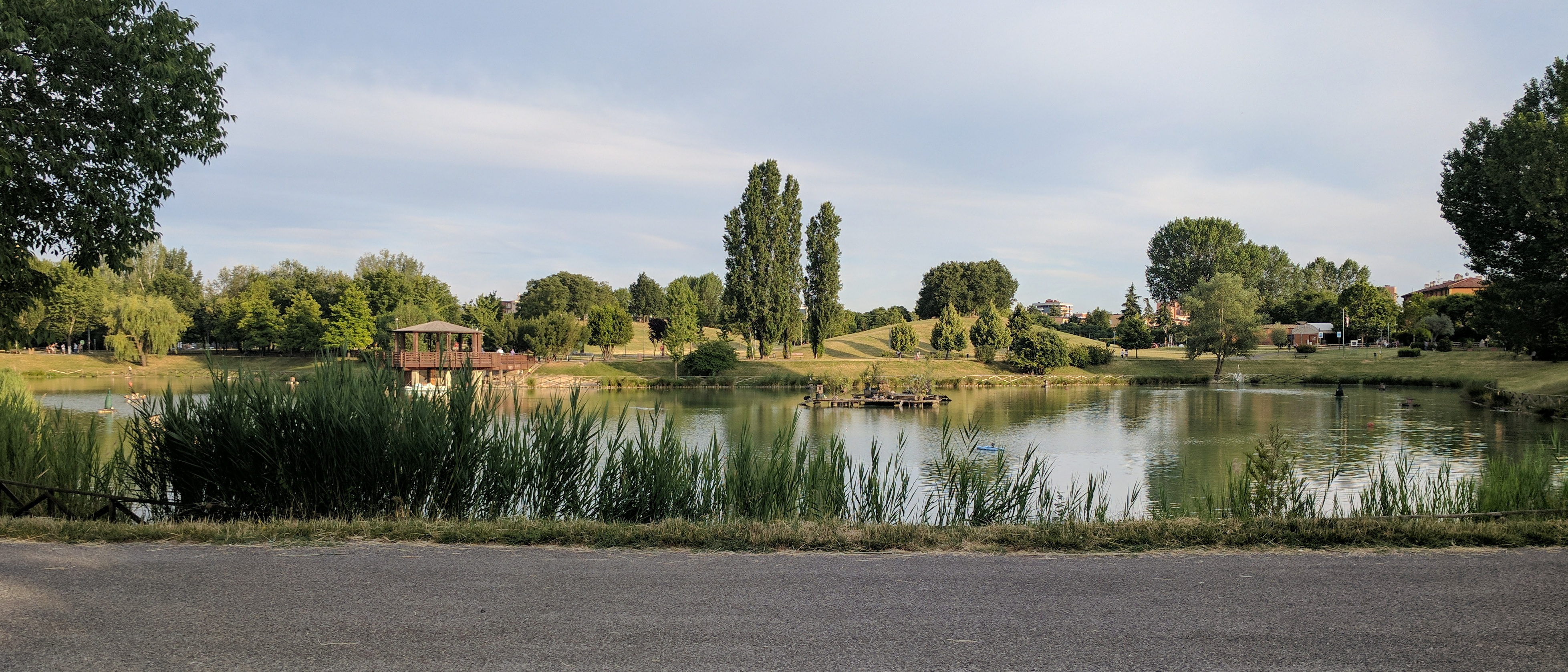 Picture of the artificial lake of "Via dei Giardini" Park in Bologna, Italy. A gazebo platform on the lake is visible.